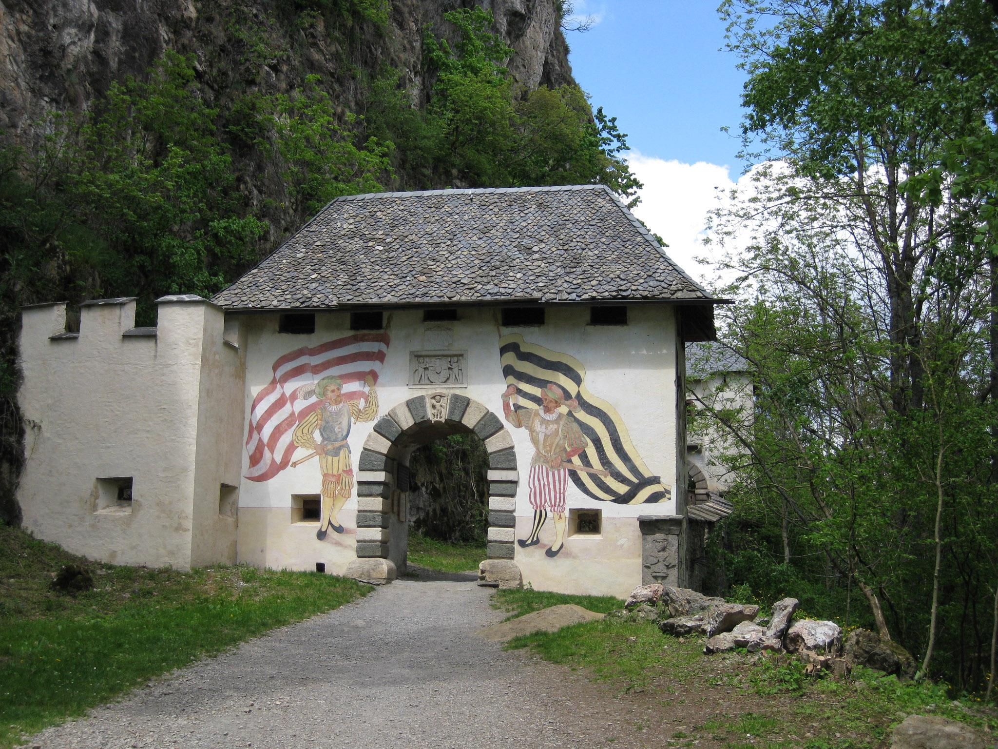 Hochosterwitz castle (slovenian: grad Ostrovica), castle in Carinthia state, Austria 1st door